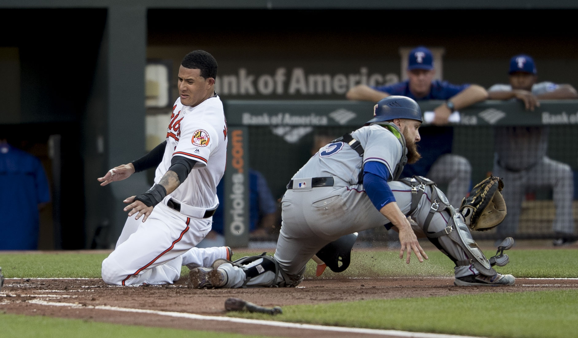 Rangers at Orioles 7/18/17